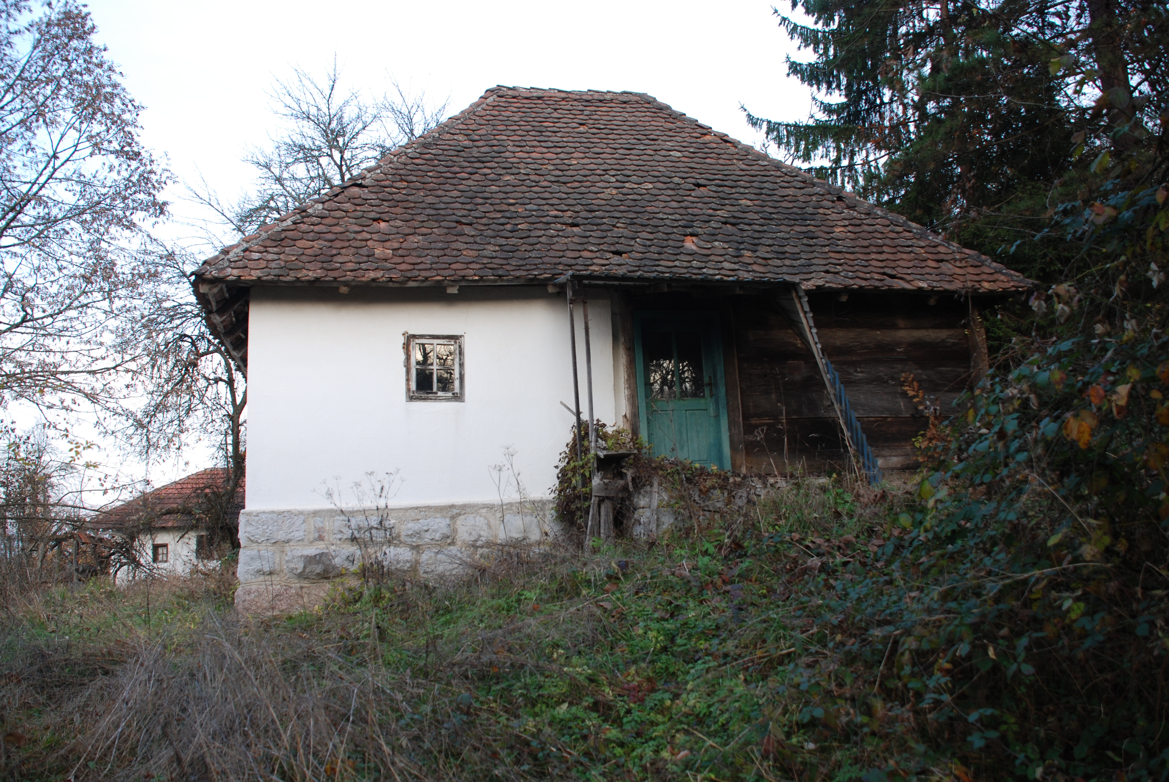 House of national hero Vladimir Radovanović in Godovik, Požega